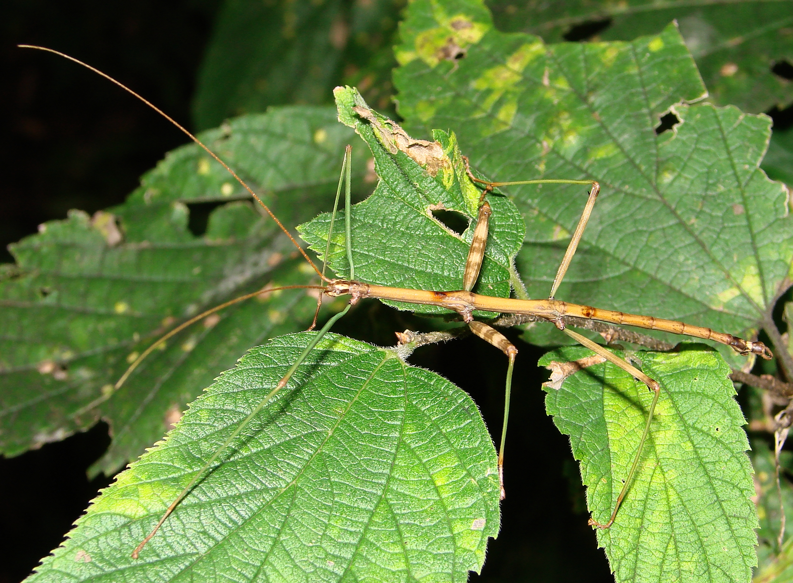 Diapheromera femorata - Northern Walkingstick - Cross Plains, WI, USA